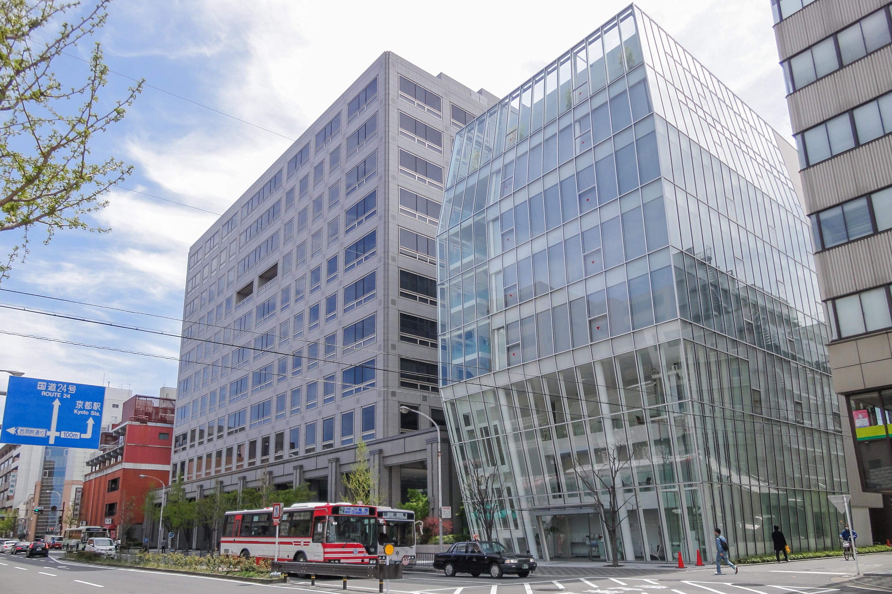 Photograph of Omron Kyoto Center Building and the annex "Keishinkan" in Shimogyo-ku, Kyoto, Kyoto Prefecture, Japan.